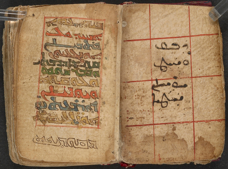 Ewangeliyon (The Assyrian Gospel). Urmia, Iran, late eighteenth century. Manuscript. Near East Section, African and Middle Eastern Division, Library of Congress (007.00.00).A number of Christian communities, particularly Armenian and Syriac, maintained a strong presence in Persian lands. The Syriac or Aramaic-speaking people in western Persia constitute one of the oldest Christian communities of Persia and are referred to as the “Assyrians”. The language used for communication and liturgical writings is modern Aramaic. This rare Assyrian Christian gospel contains the first four books of the New Testament and is from the Urmia region of Iran.The book cover